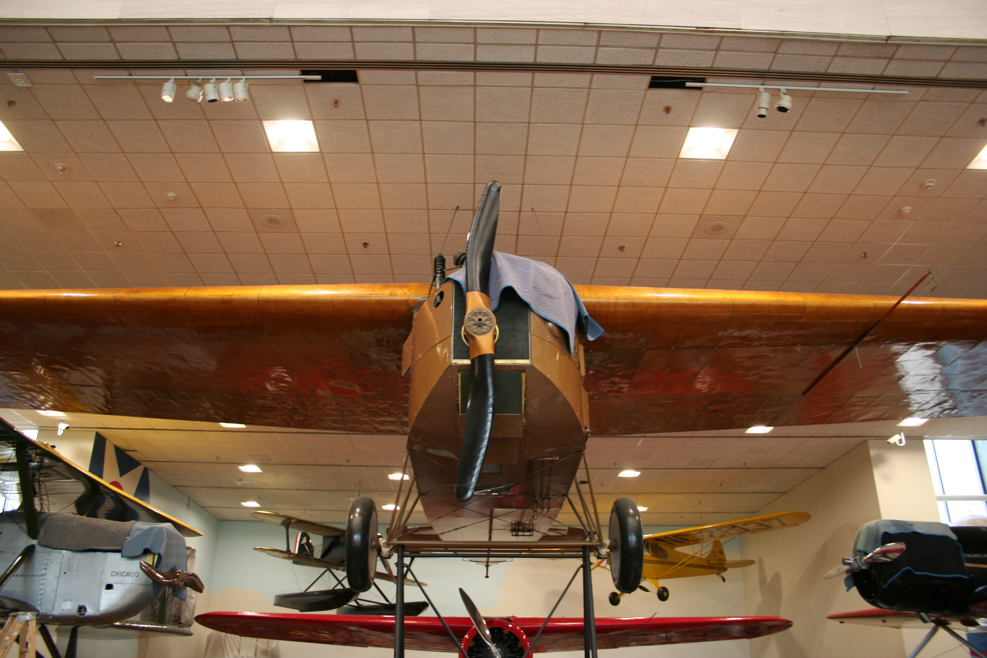 Fokker T2 on display in Washington, D.C.